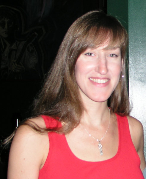 Happy Rhodes after a concert.